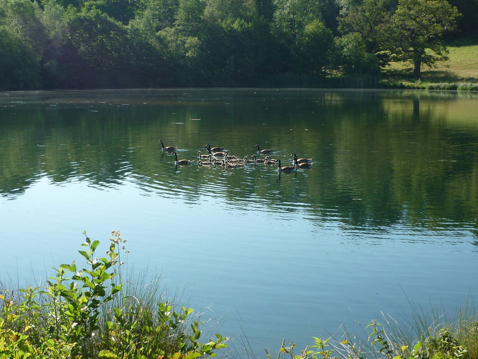 Geese and goslings on lake at Panshanger nature reserve, Hertfordshire, UK